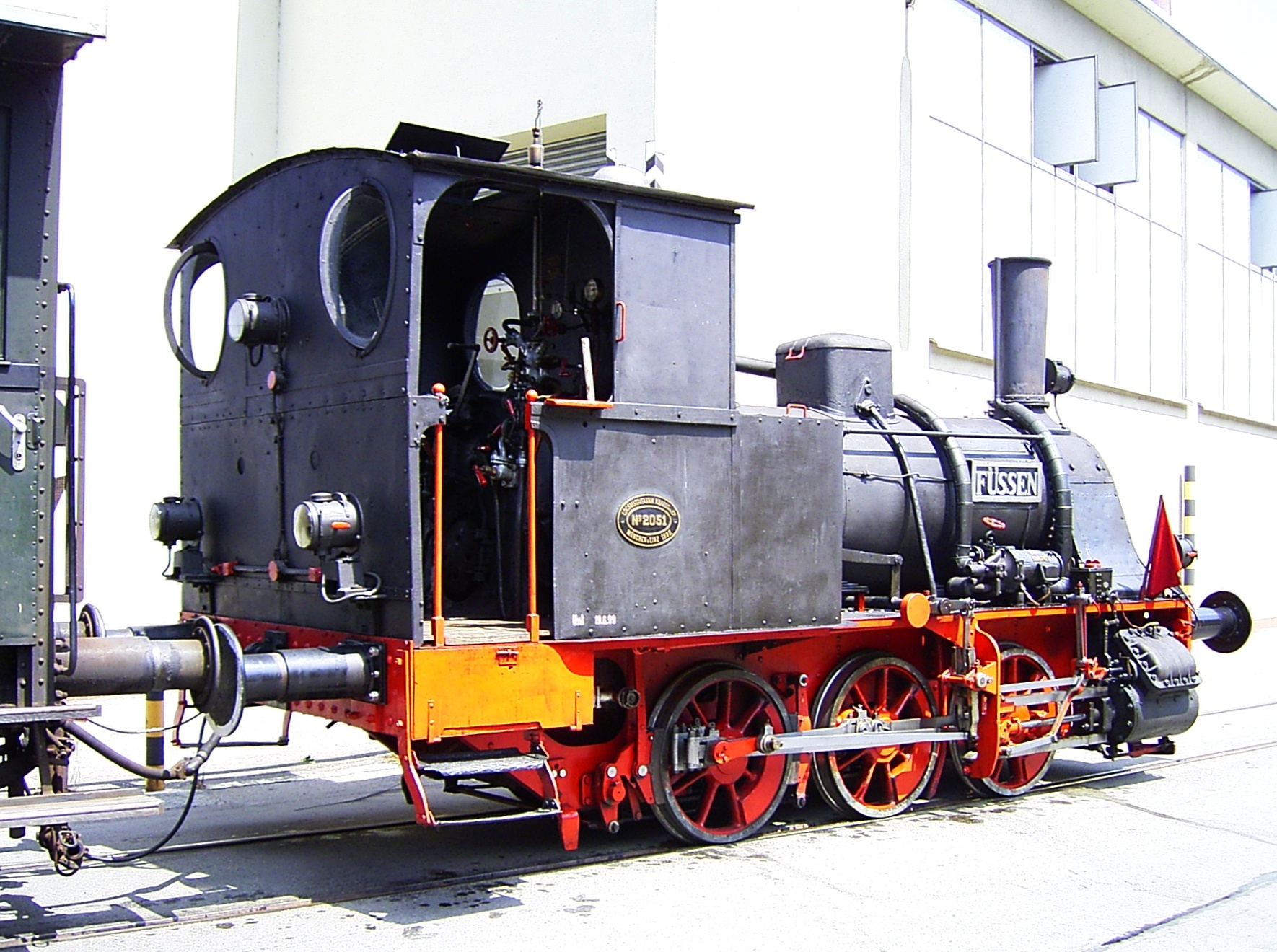 Locomotive Fuessen (1889) 2003 in Baienfurt, Germany